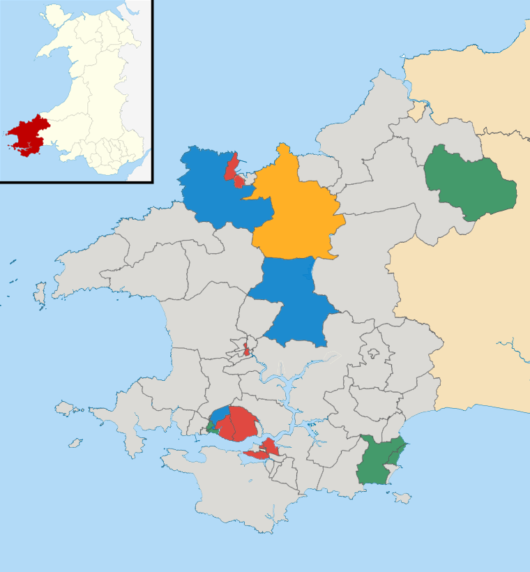 Results of the Pembrokeshire County Council election, May 2012, indicating the party affiliations of each councillor (one county councillor elected per ward) Colours: Conservative Plaid Cymru Labour Liberal Democrat Independent